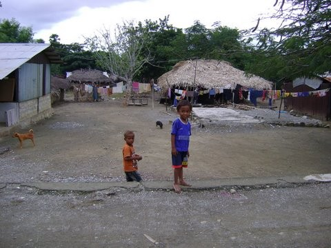 Village life in Obrato, suco Sau, subdistrict Manatuto, district Manatuto, East Timor